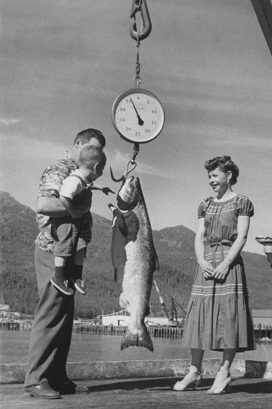 Meyer, Elisabeth En liten familie på 3 beundrer laksen som ga dem Oldsmobilen av siste modell. A happy family with salmon that gave them the latest Oldsmobile model. Golden North Salmon Derby i Juneau. Alaska 1955. The winner is Bob Pasquan of Juneau, and his prize for the 46 lb 8 oz fish was a new Olds 88. Total prizes in 1955 were $12,000, As of 2012 the contest is still going strong, but the winning fish are smaller. 12,4x16,3 cm Gelatin silver print, baryta NMFF.002537-28